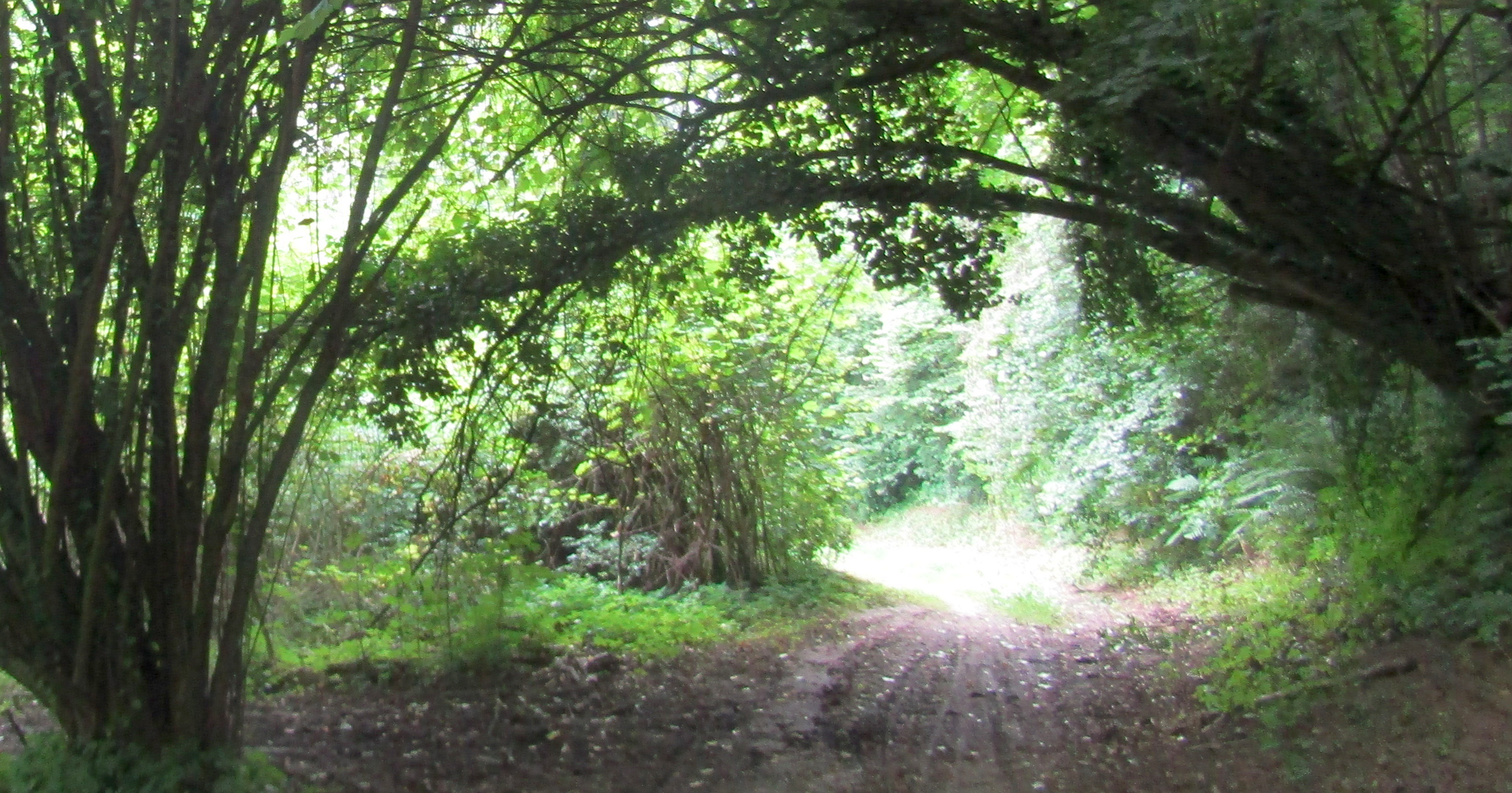 Riserva naturale speciale della Val Sarmassa (AT, Italy)